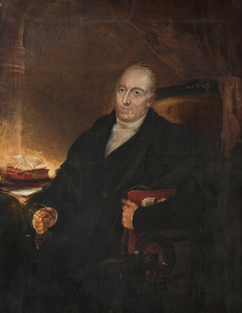 Professor John Young;1750ish-1820 by Elizabeth Carmichael maybe in 1800 ish